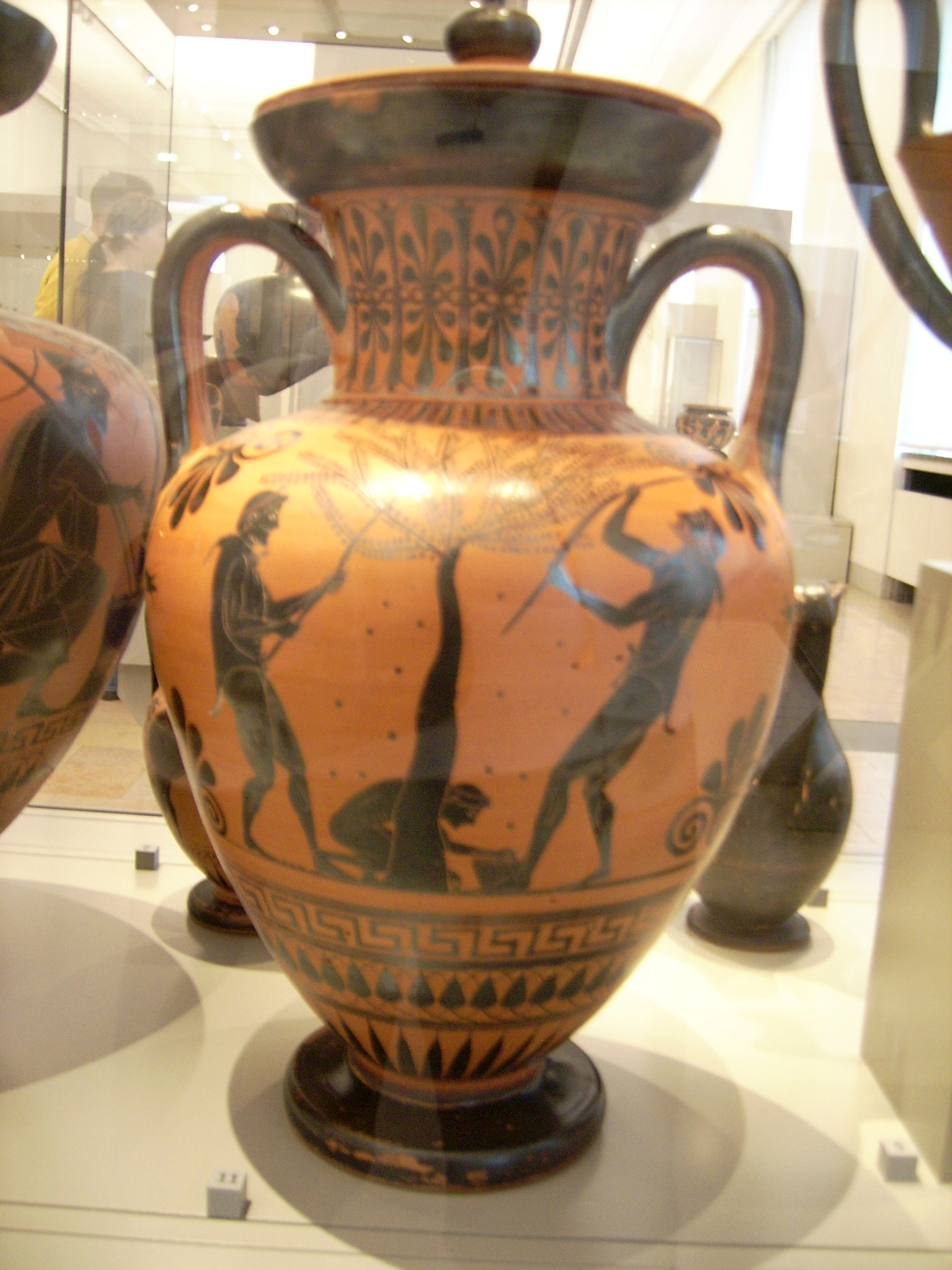 Side A: Herakles with the erymanthian boar. Side B: scene of olive-gathering.